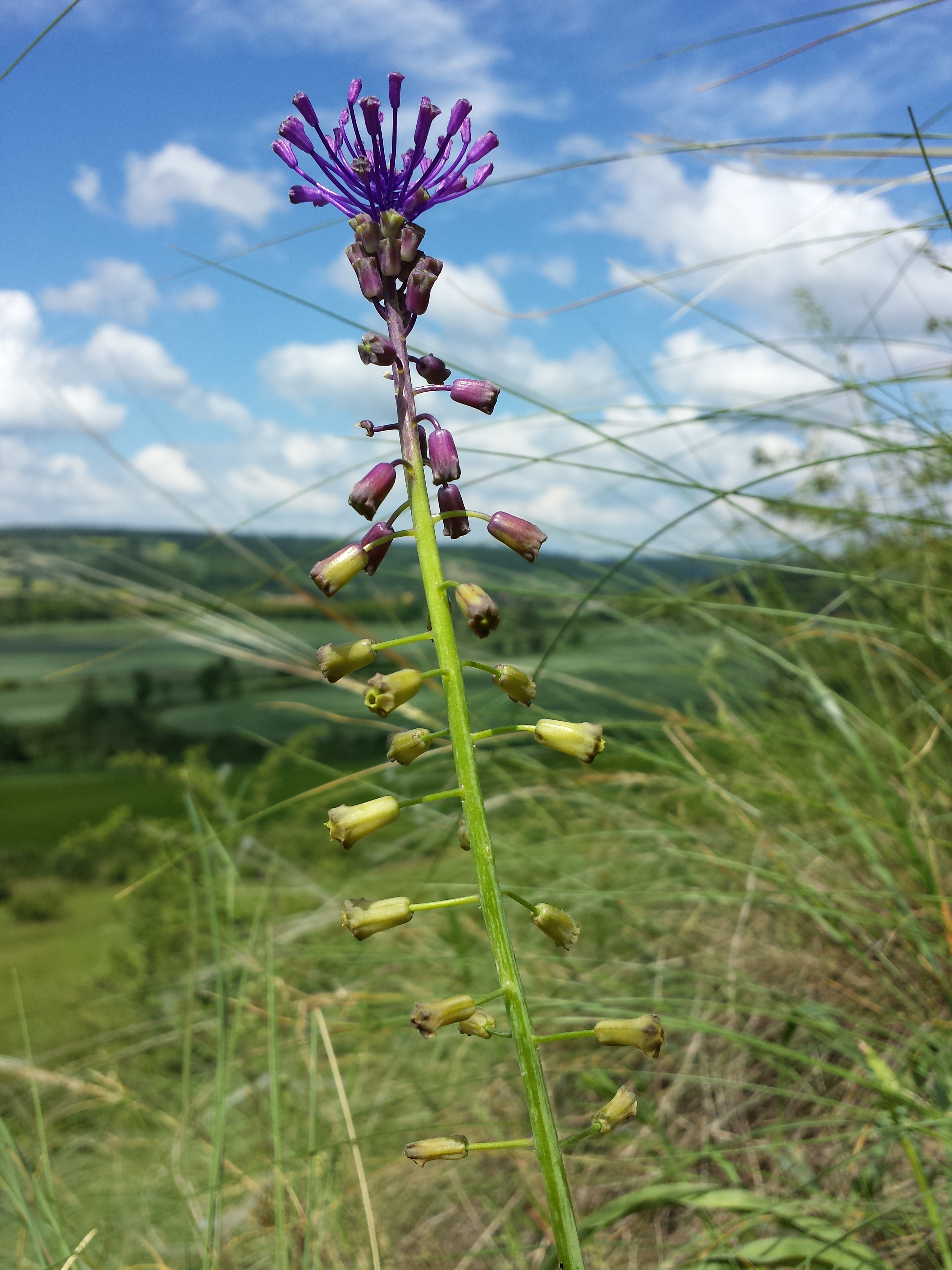 Florescence Taxon: Muscari comosum (sensu Fischer et al. EfÖLS 2008 ISBN 978-3-85474-187-9) Location: Haulesbergen, Ulrichskirchen-Schleinbach, district Mistelbach, Lower Austria - ca. 200 m a.s.l. Habitat: dry grassland over Loess